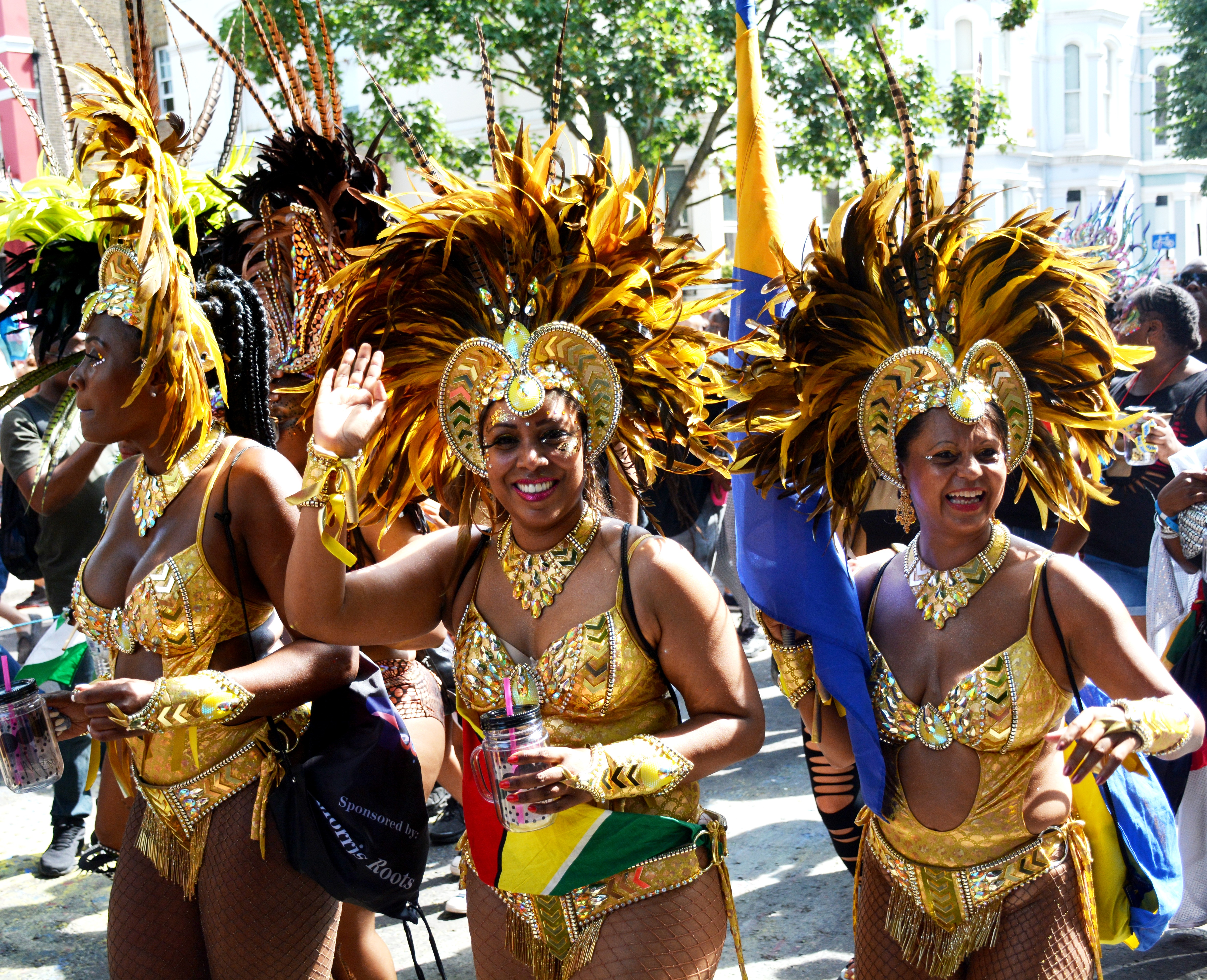 Notting Hill Carnival 2017, London, U.K.